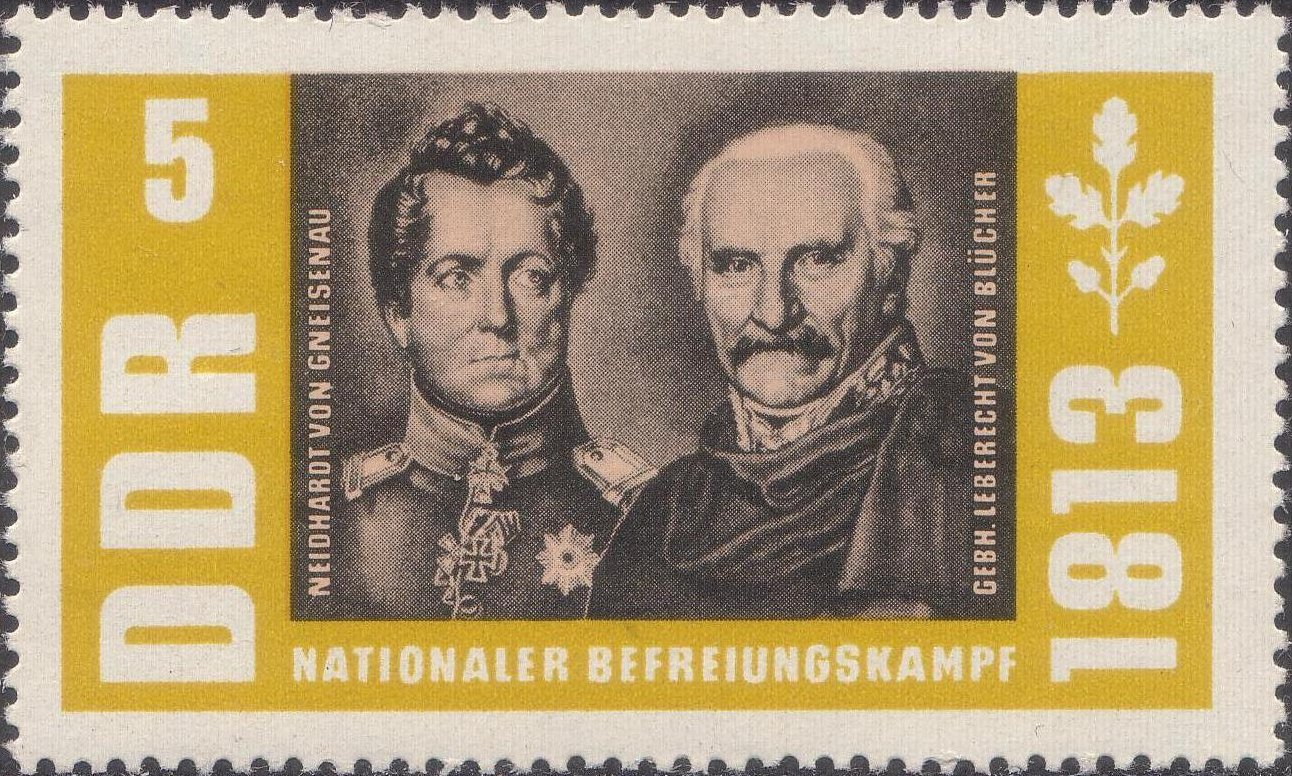 stamp, DDR 1963, Michel 988